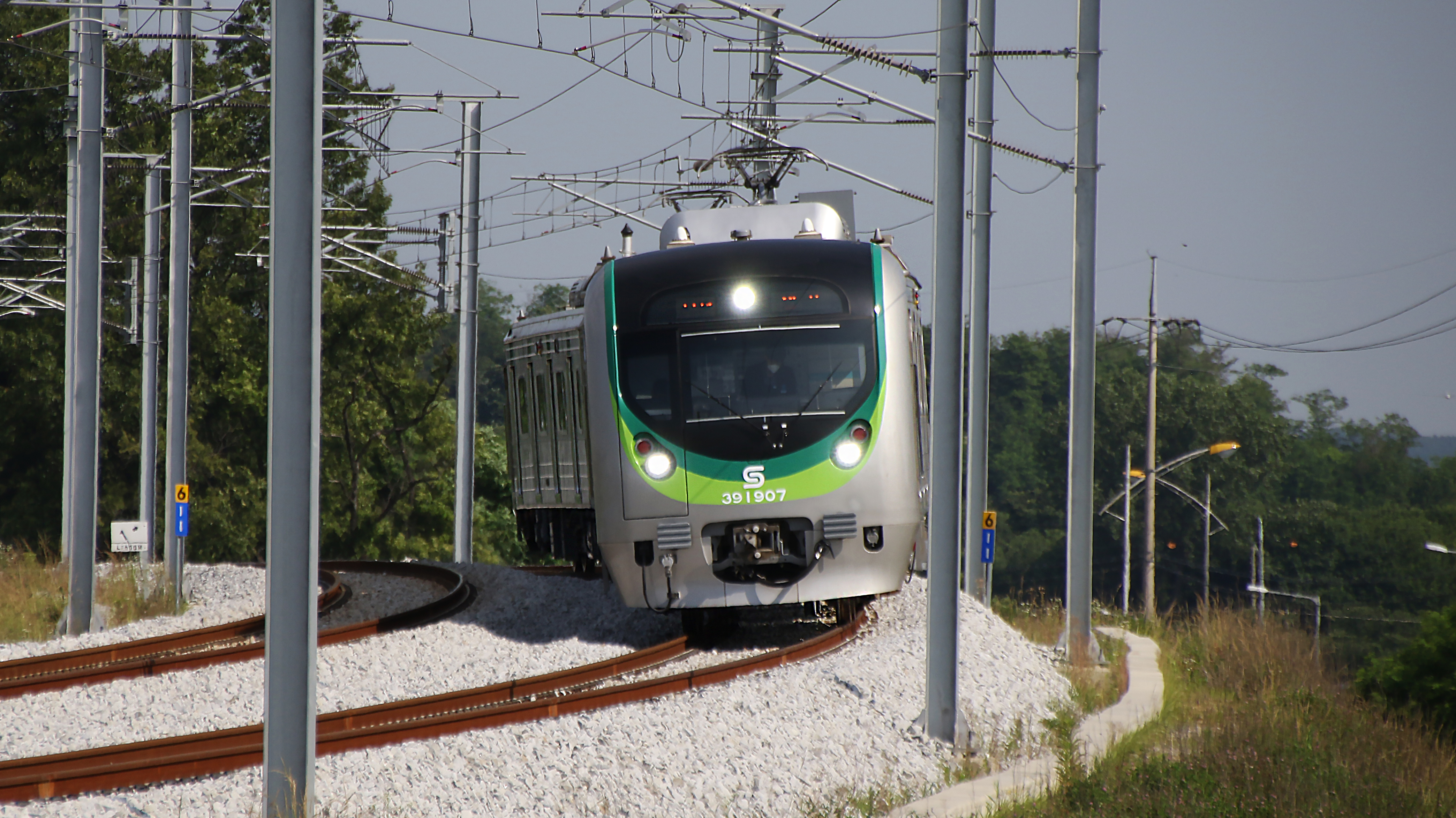 Seoul Metro Seohae Line train of Korail 391000-series cars heading to Siheung City Hall.